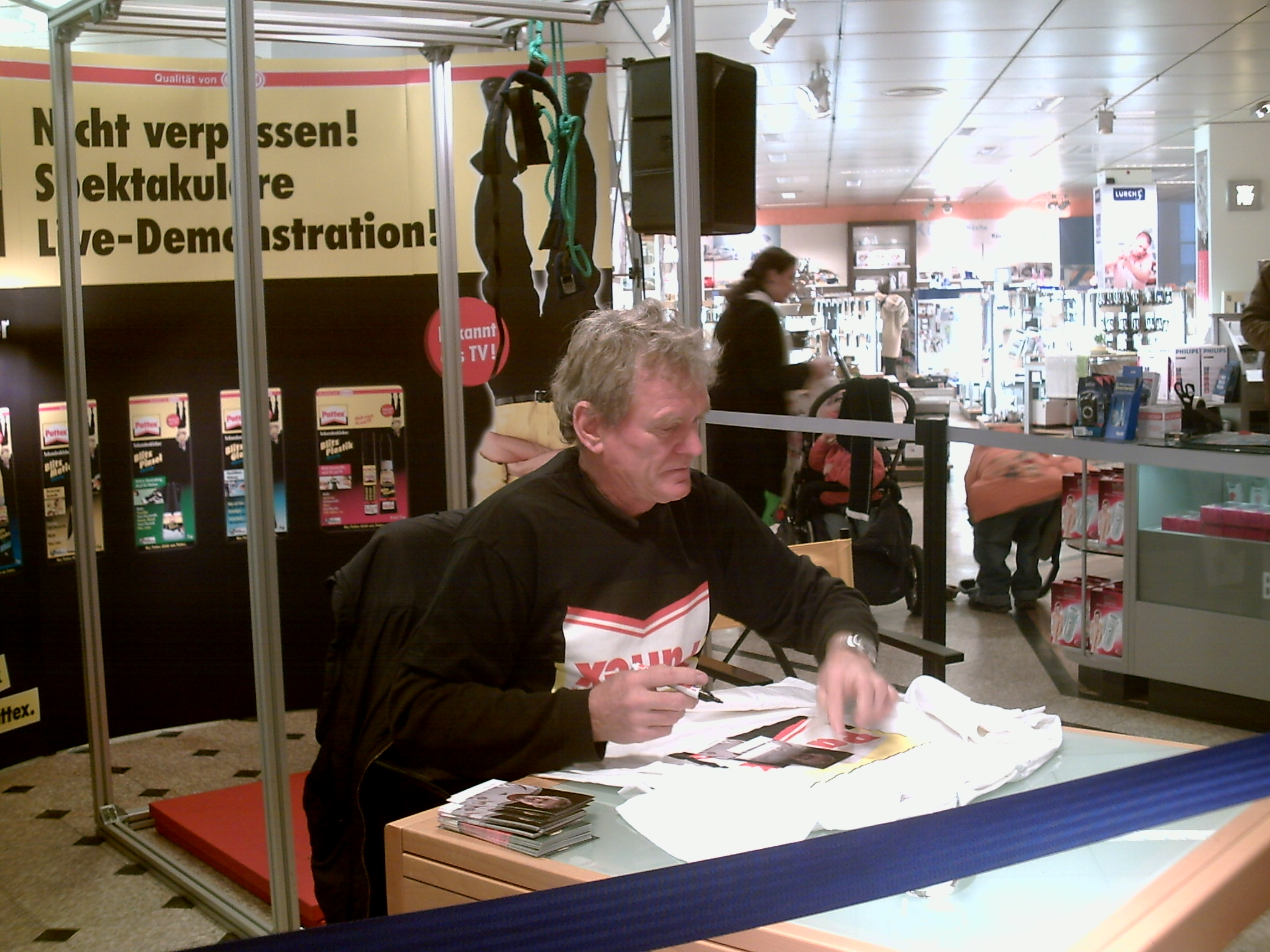 The cat from Anzing Sepp Maier at a promotional show in karstadt Bremen , Feb. 2007